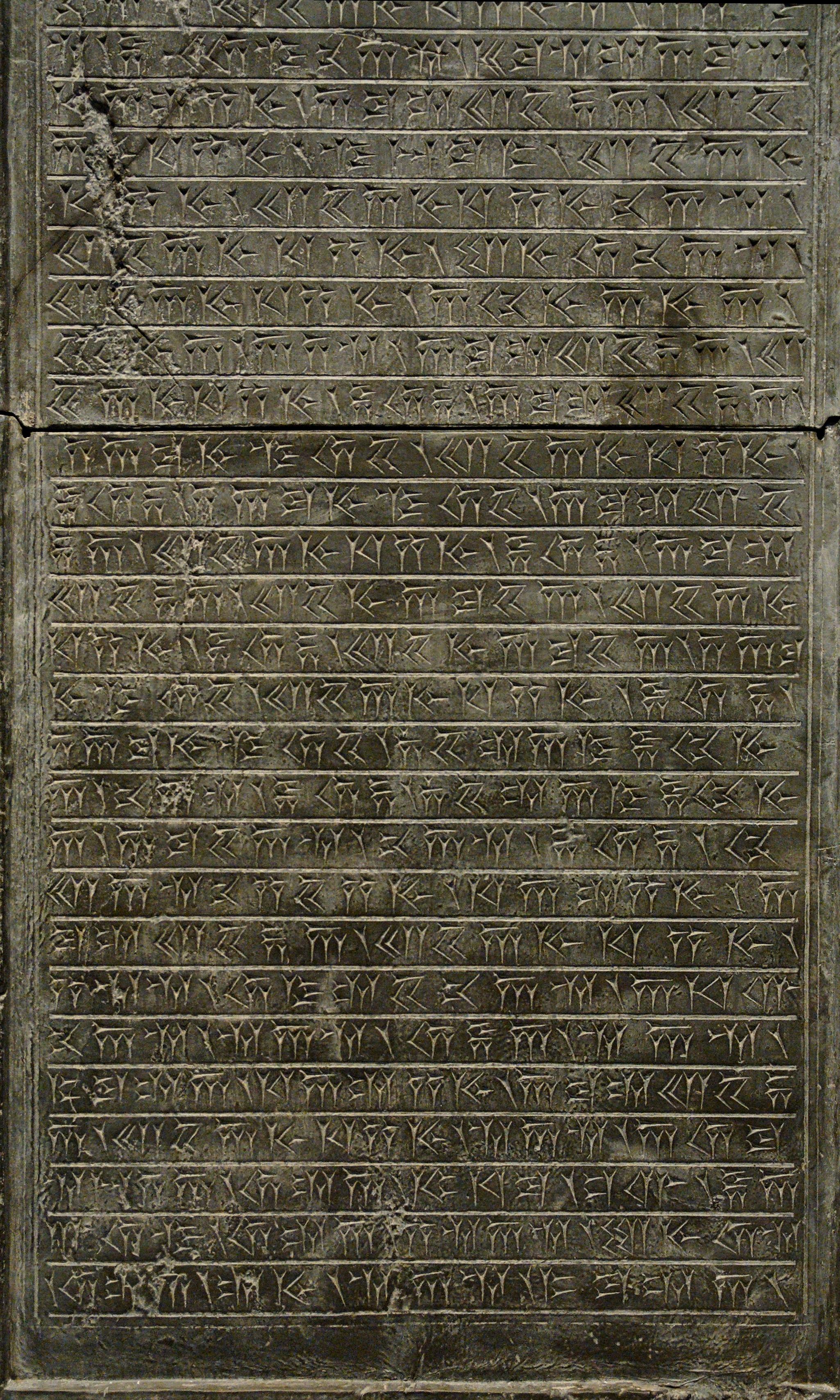 Cuneiform inscription recording the erection of a staircase in the Palace of Darius by Artaxerxes III. 19th-century plaster cast taken from sculptures on the Palace of Darius at Persepolis.